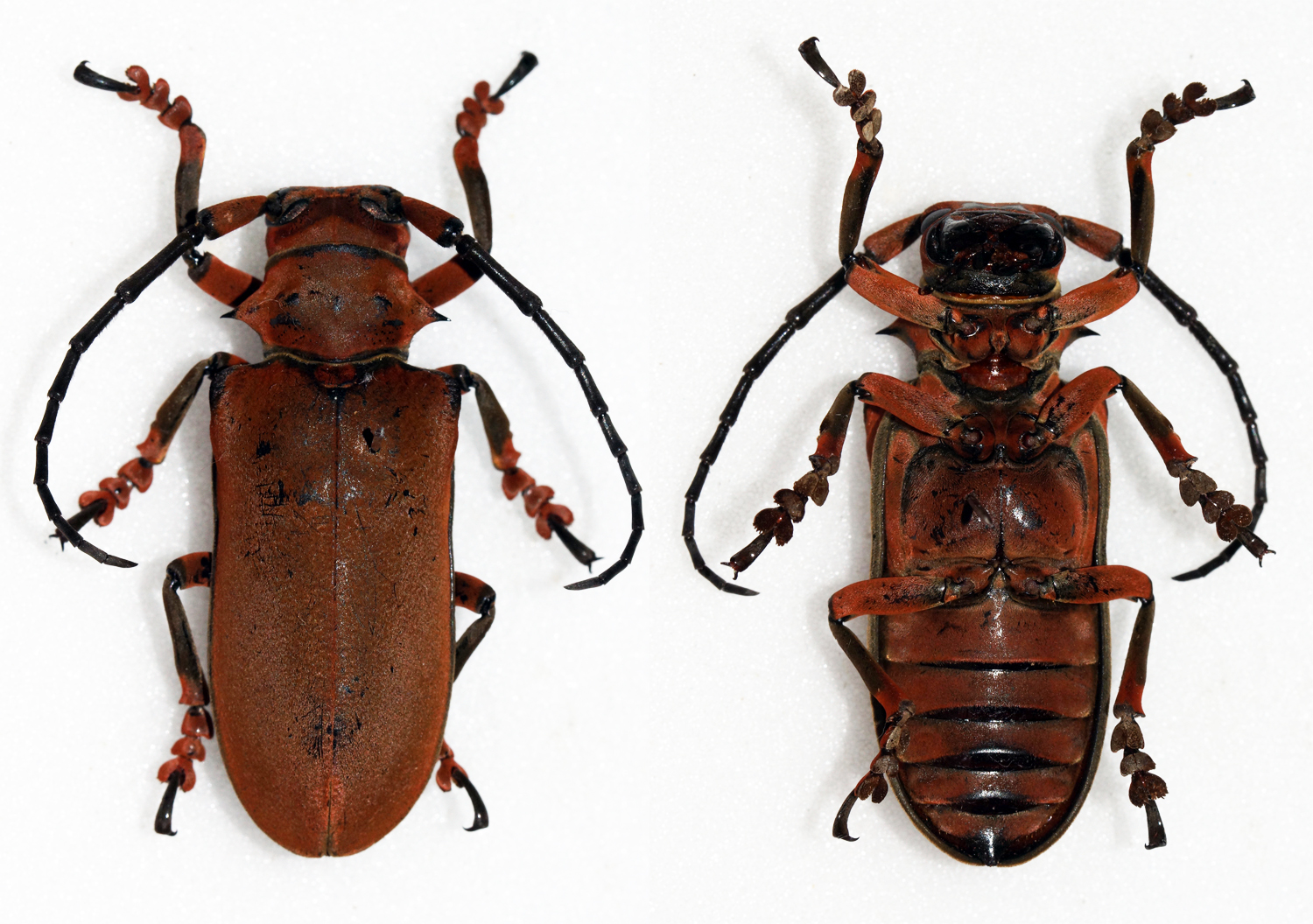 Thomson,1864 Sex: ? Data: 10-2010 - Cameron Highlands - West Malaysia Size: ?